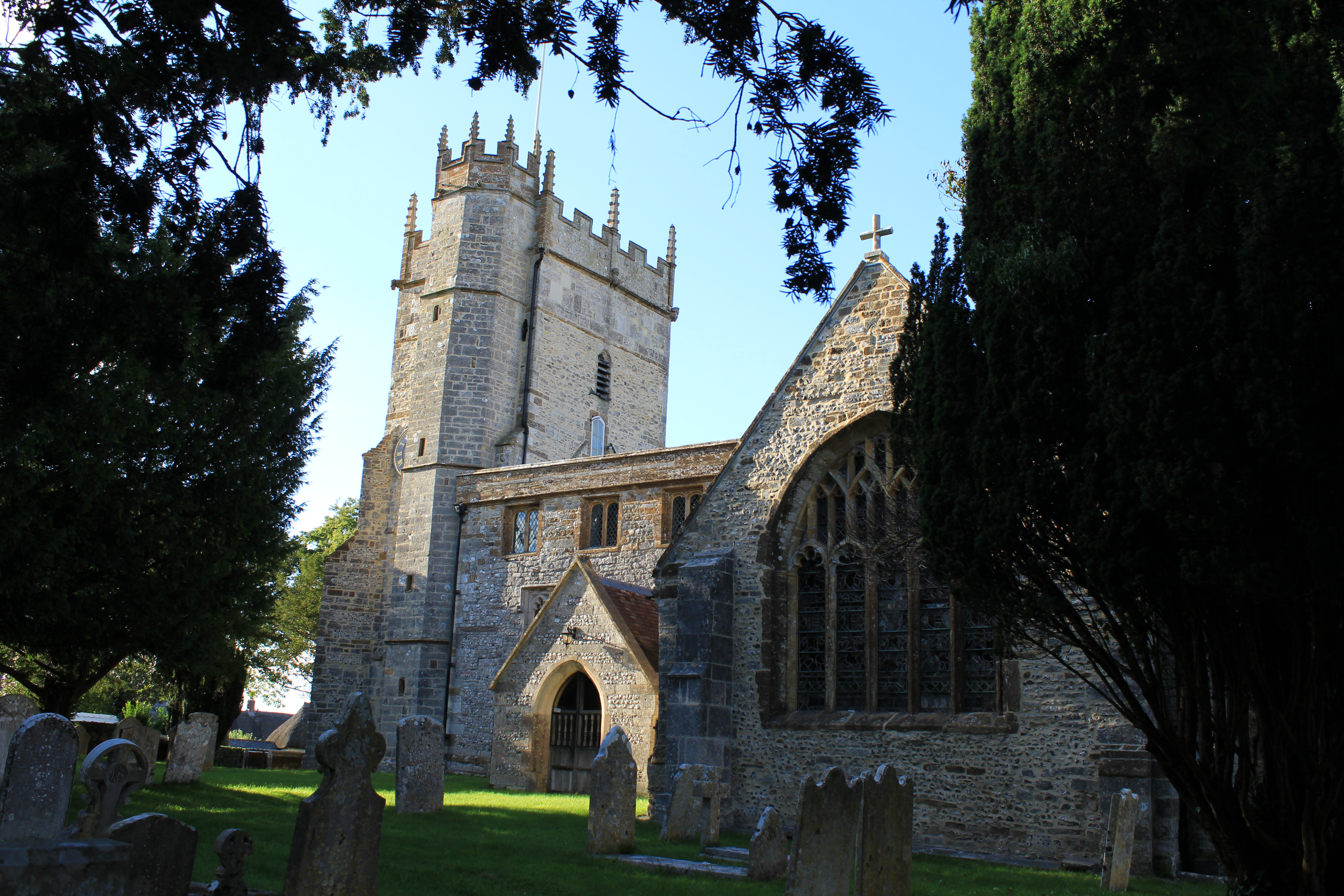 Parish church of St Mary, Puddletown, Dorset, England, on 1 September 2015